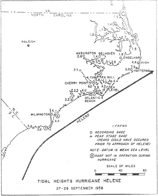 The path of Hurricane Helene as it brushed the North Carolina coast.